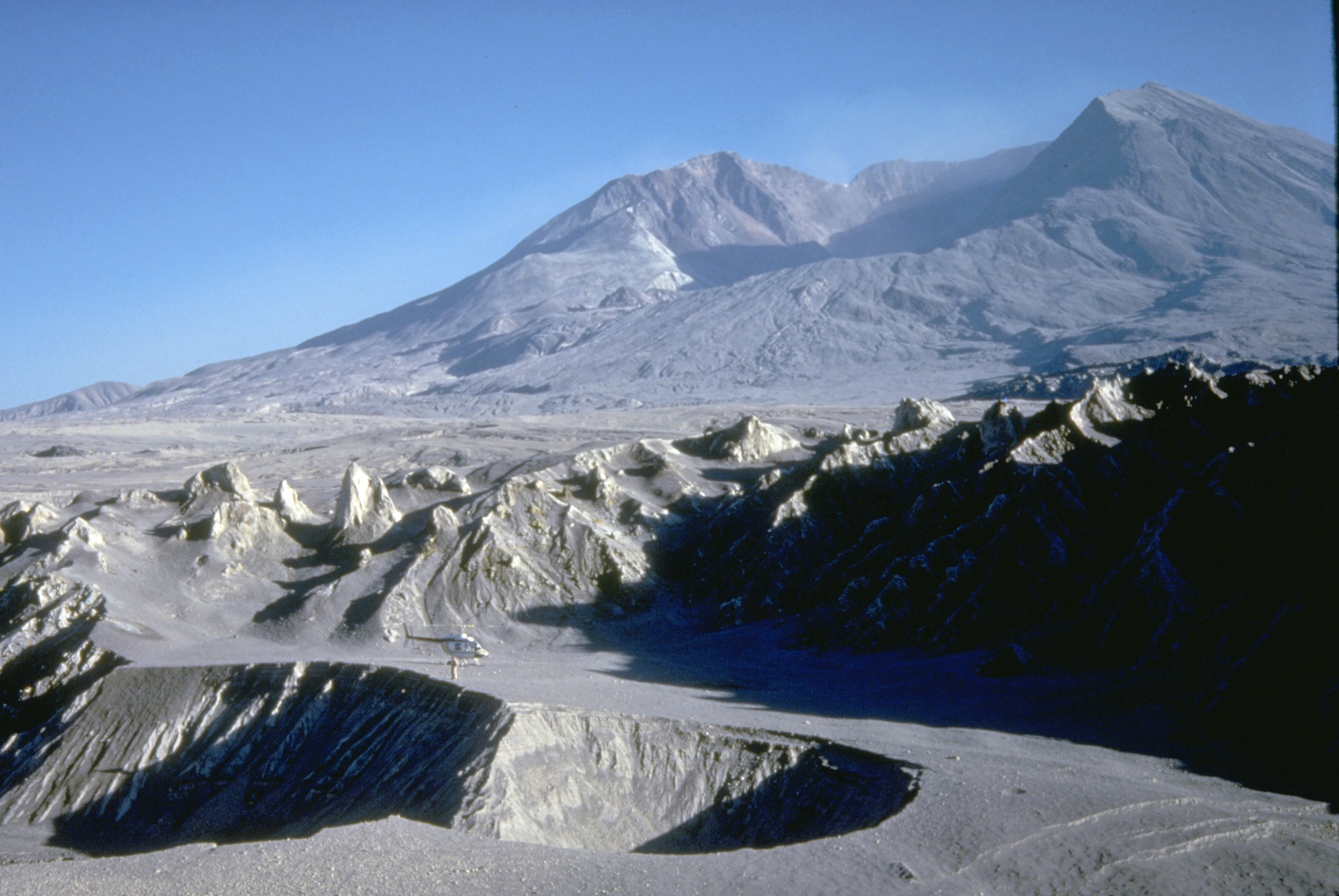 After the May 18, 1980 eruption, Mount St. Helens’ elevation was only 8,364 feet (2,550 meters) and the volcano had a one-mile-wide (1.5 kilometers) horseshoe-shaped crater. View here is from the northwest. Pits in the foreground are phreatic explosion pits within the debris avalanche.